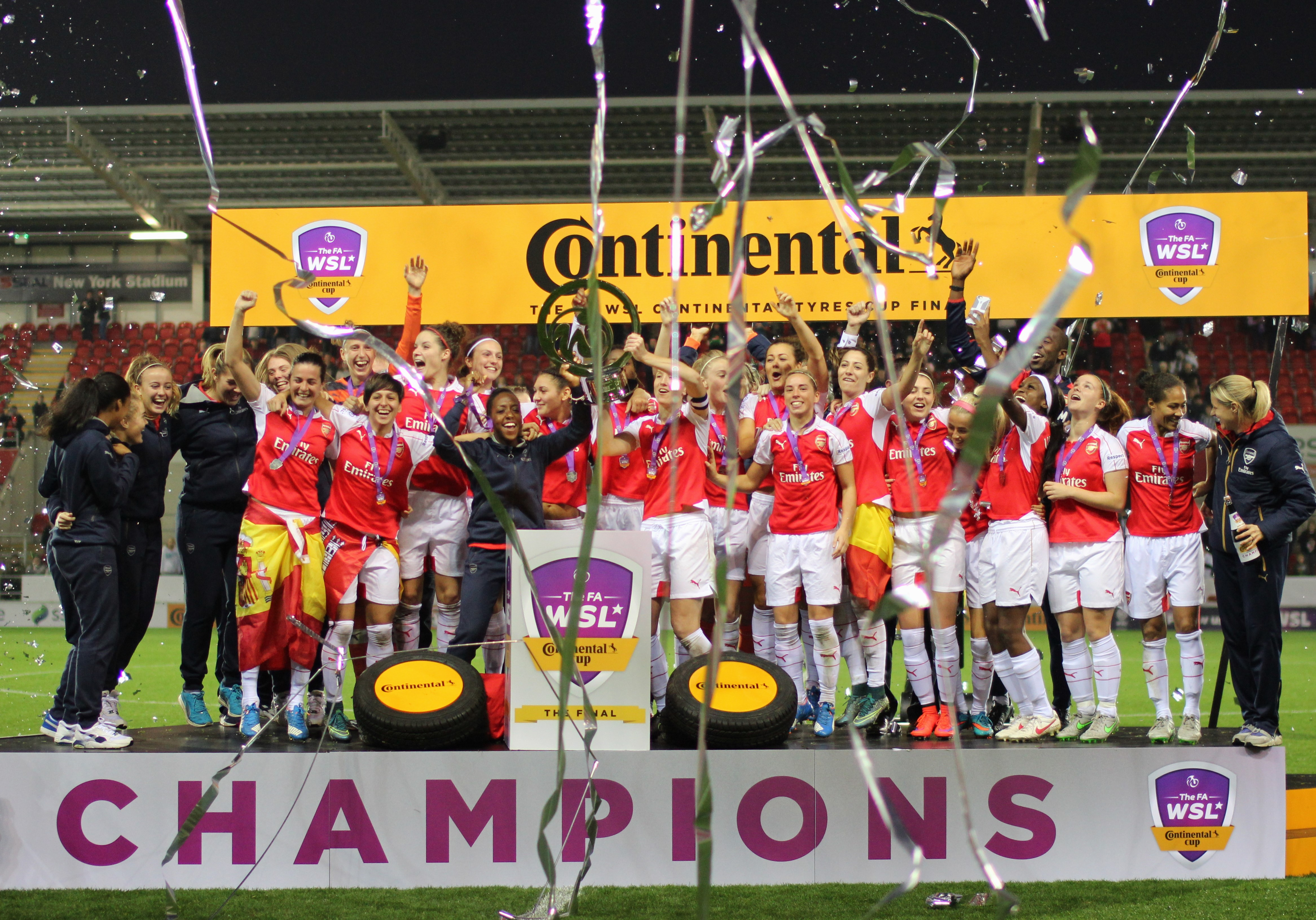 Arsenal Ladies players celebrate winning the Continental Cup Final against Notts County.